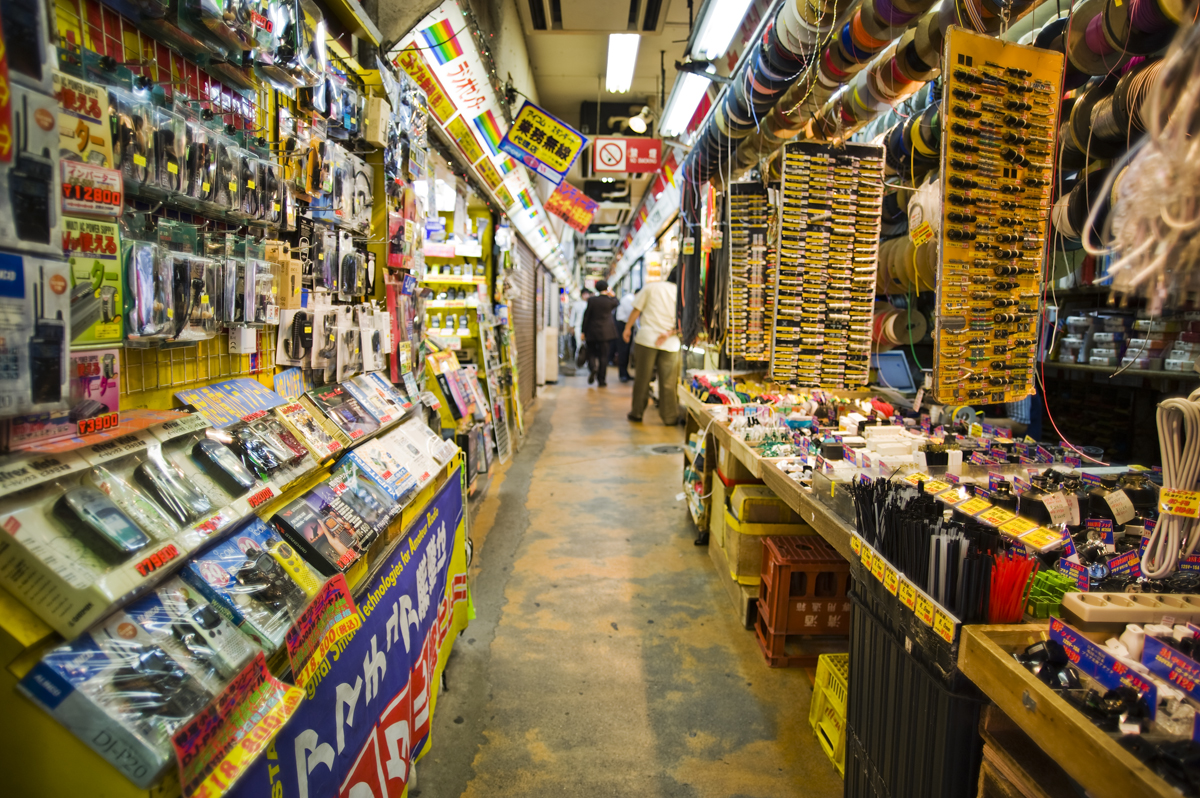 Akihabara Radio Center (Kotobuki-Musen) and Akihabara Radio Store (Kyūshū Denki) - Amateur radio transceivers & cables - 1-14-2 Sotokanda